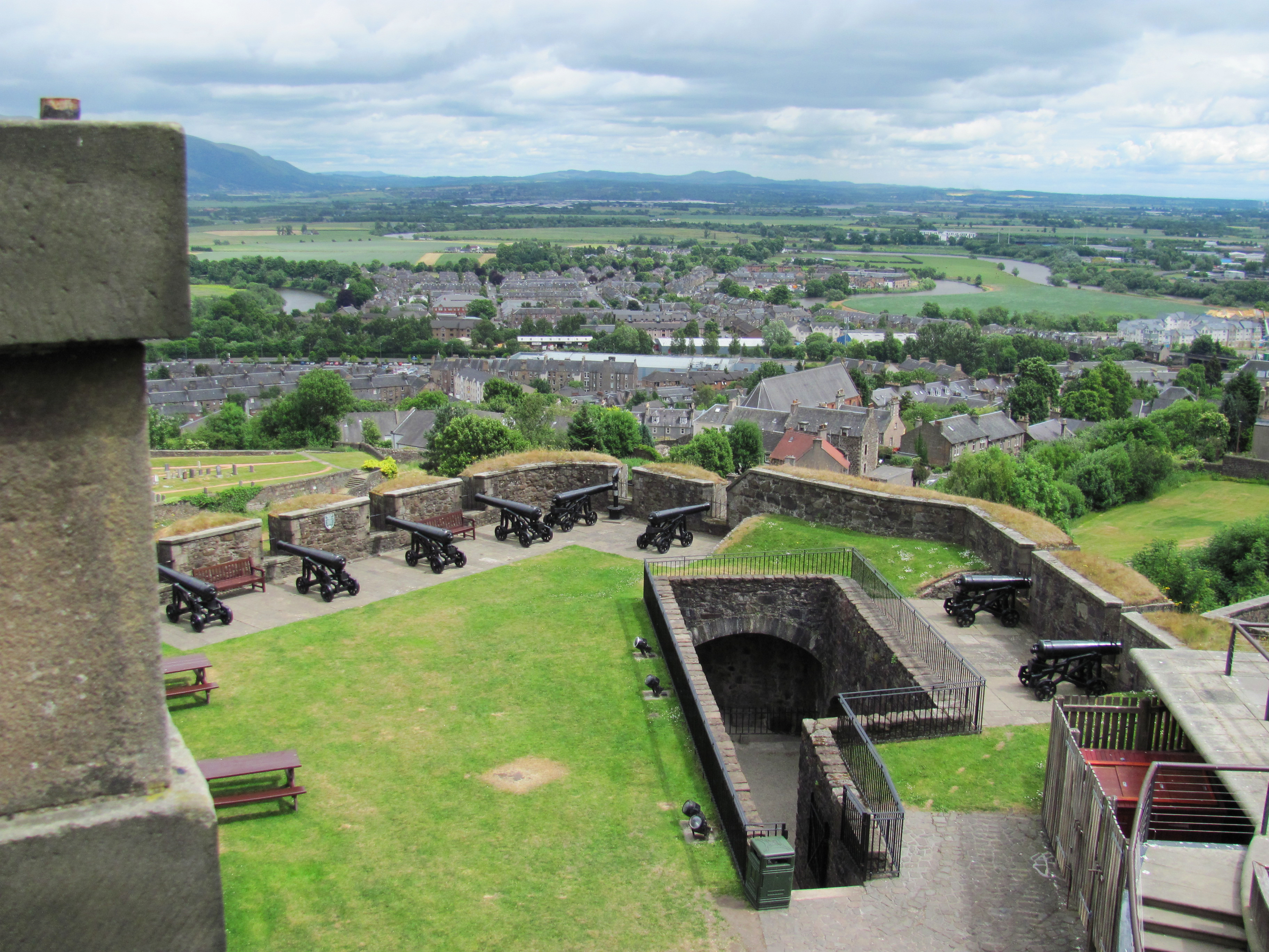 Part of the Outer Defences of Stirling Castle, Stirling, Scotland, that were built following the attempted Jacobite invasion of 1708.